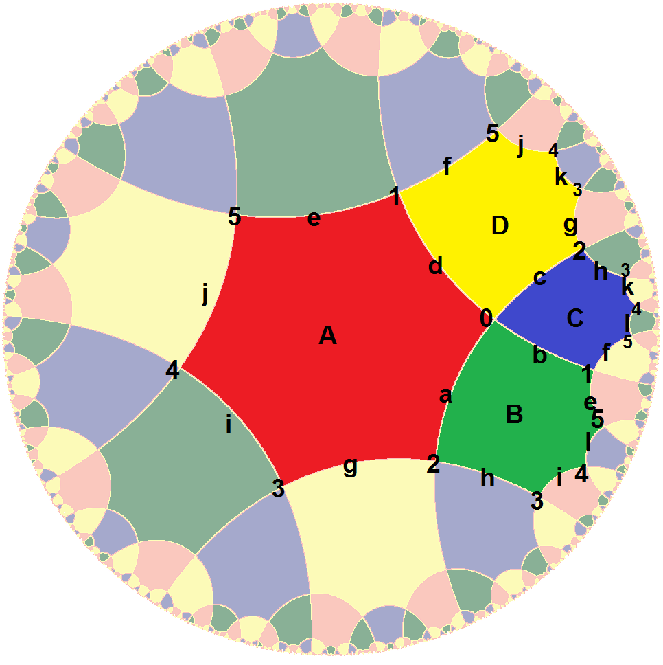 Regular map {6,4}_3 on {6,4} hyperbolic tiling, with element labels